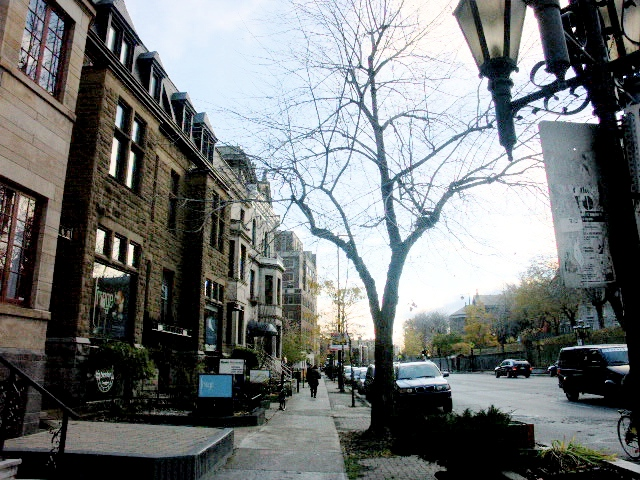 Sherbrooke Street West, Montreal. Photo by: user:gene.arboit